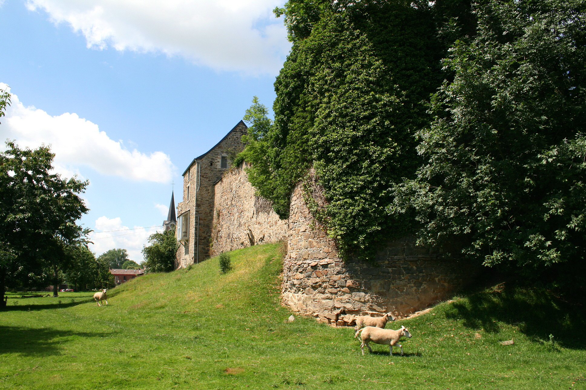 Opprebais, Belgium, the castle farm (XIIIth century).